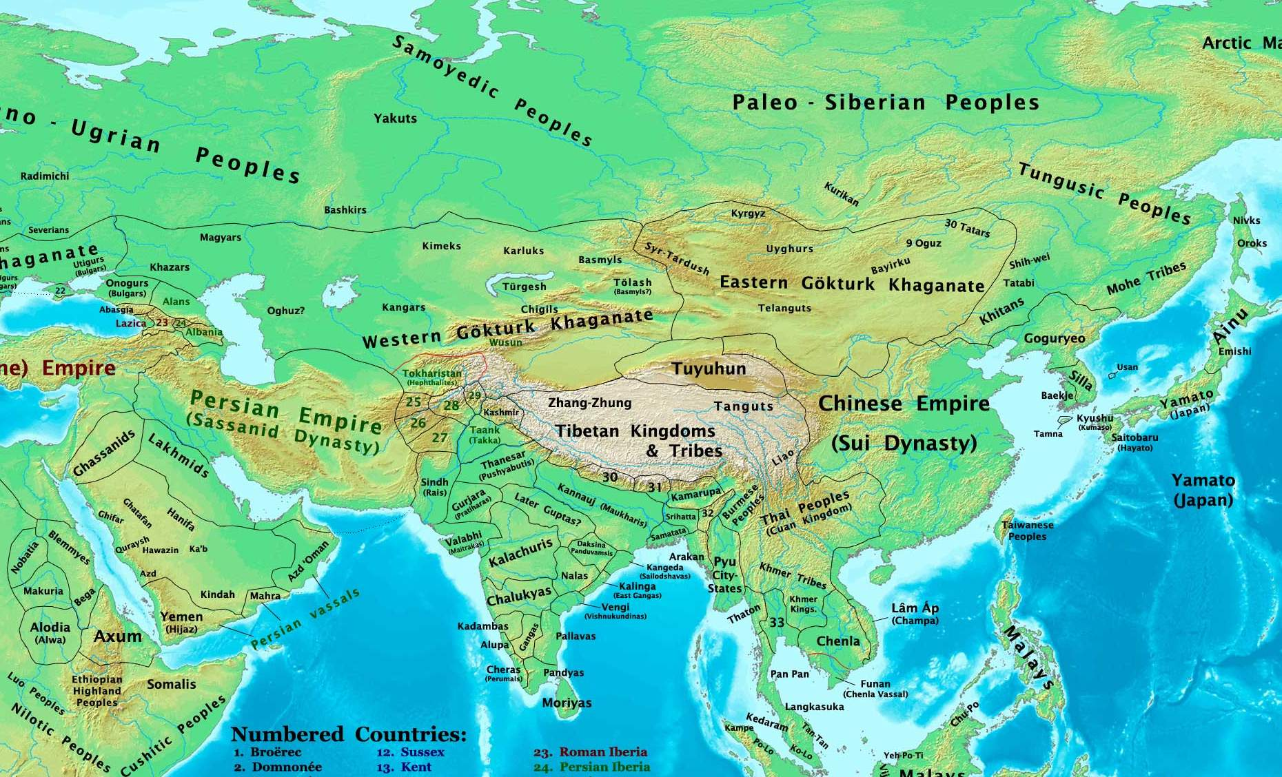 Eastern part of Eastern Hemisphere in 600 AD.